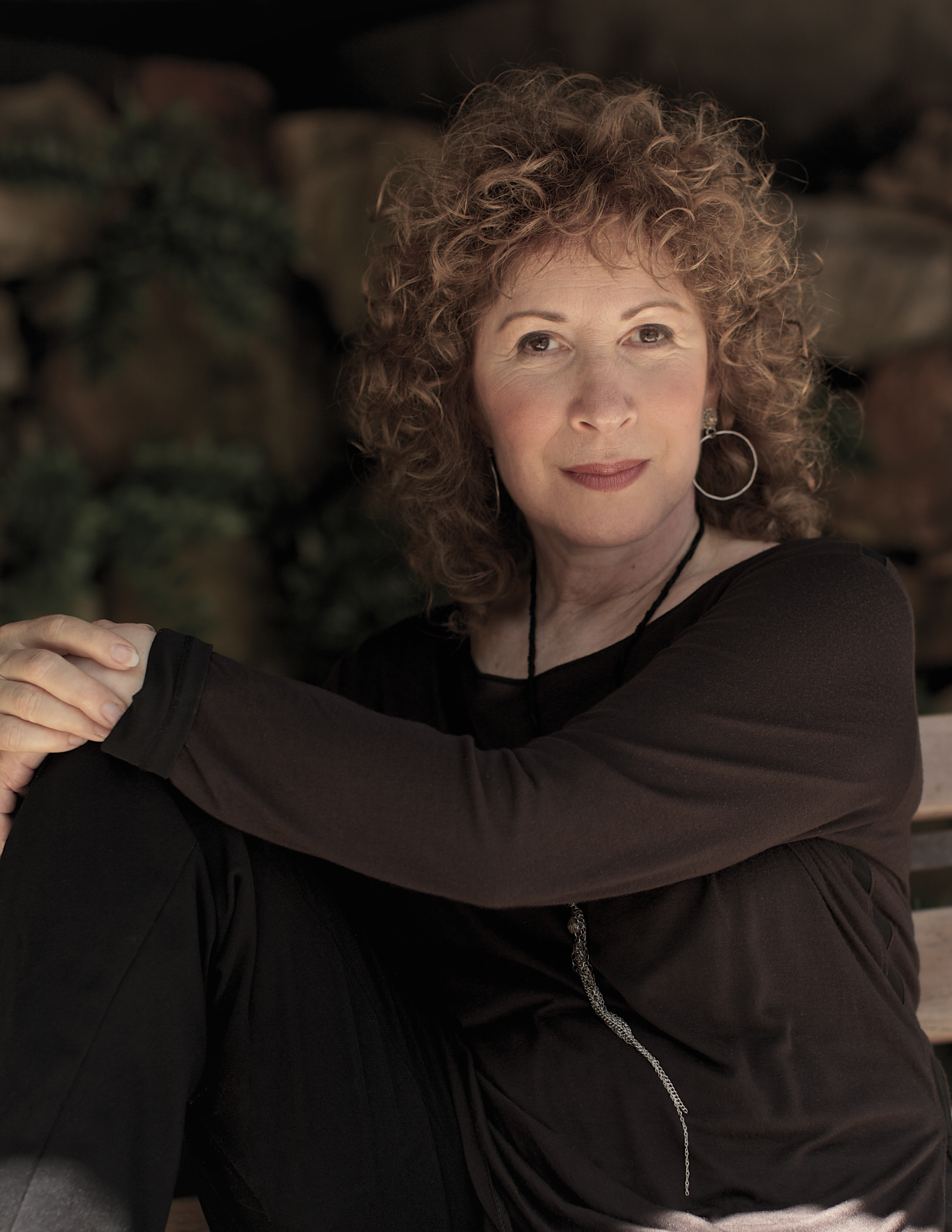 Lani Hall Alpert 2012 in Malibu California